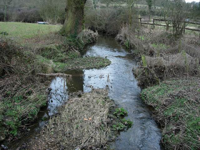 Stream under minor road. Debris on fence shows how high these seemingly small streams can get